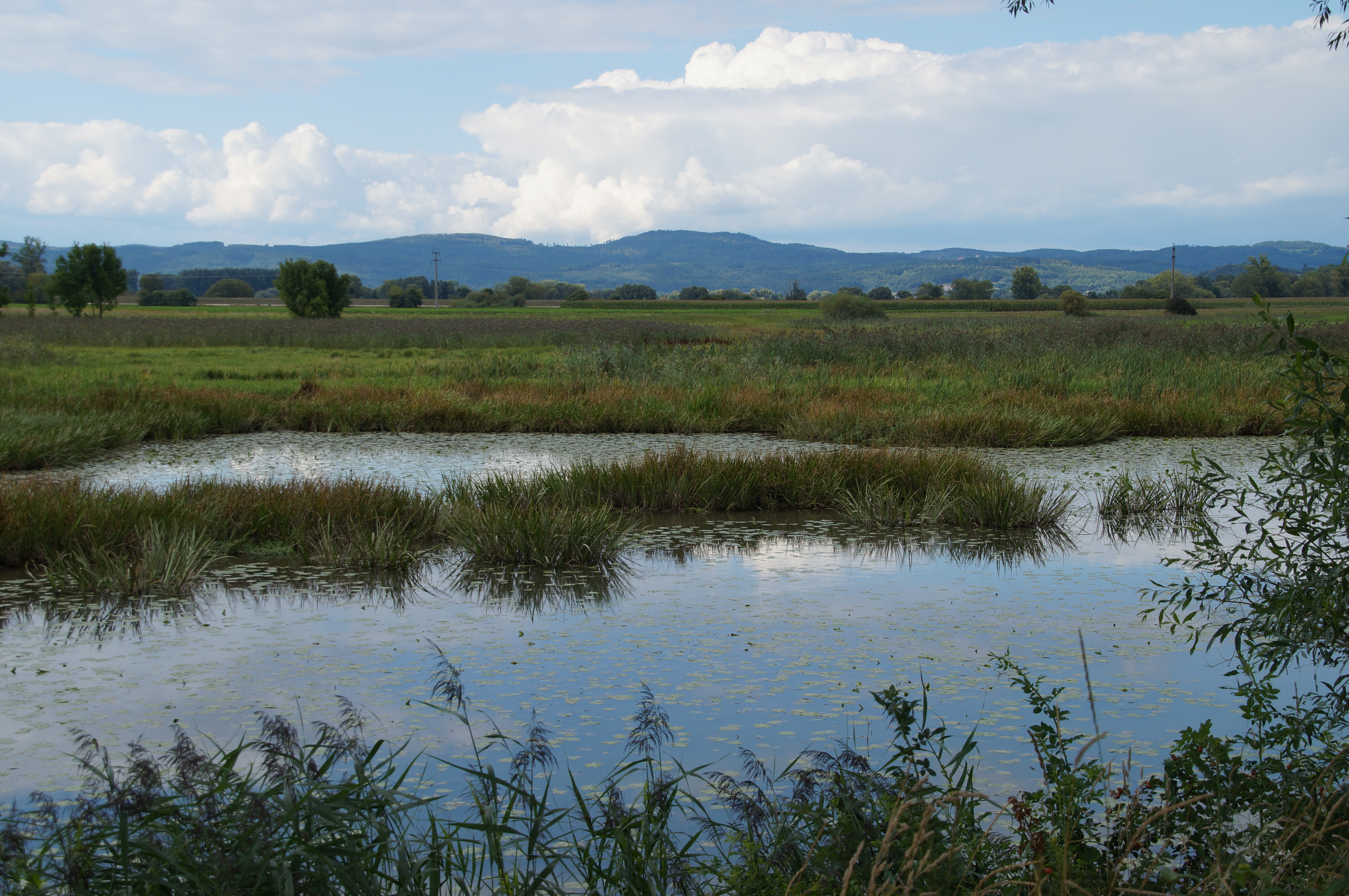 Old fork of the Danube near Pfatter, Geotope No.: 375R034, nature reserve "Pfatterer Au"